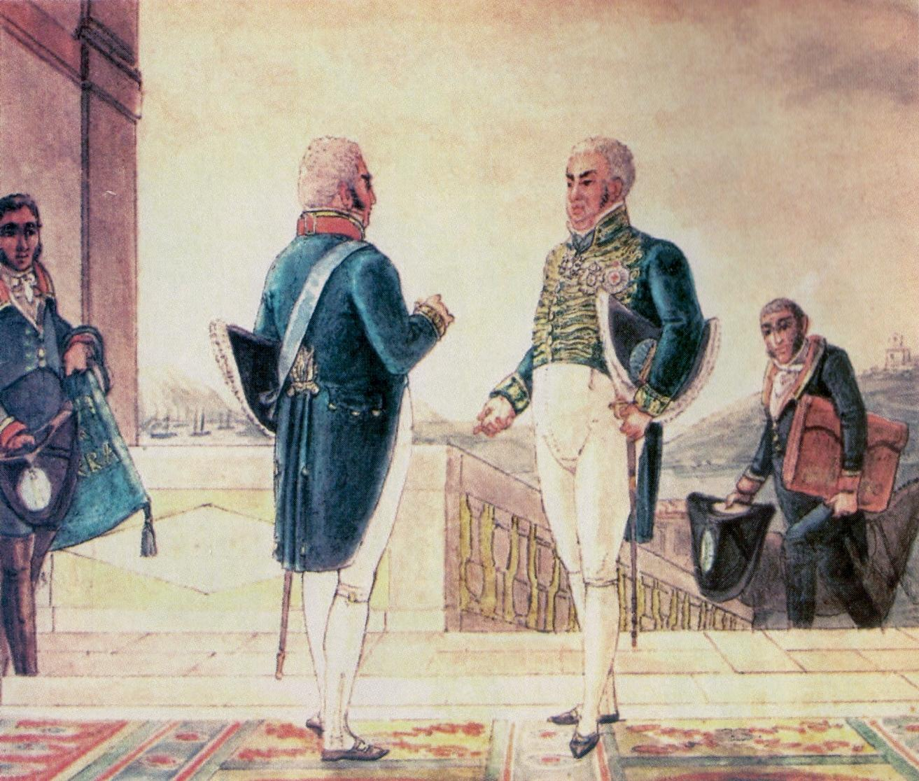 Ministers of the Empire of Brazil (center) and servants (right and left), c.1824